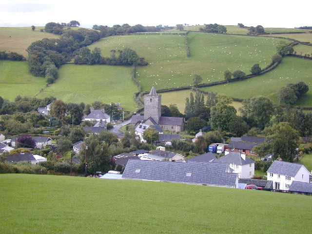 Llanfihangel y Creuddyn, on a tributary of the Afon Ystwyth. Fine church with solid square tower. Viewed from the north.